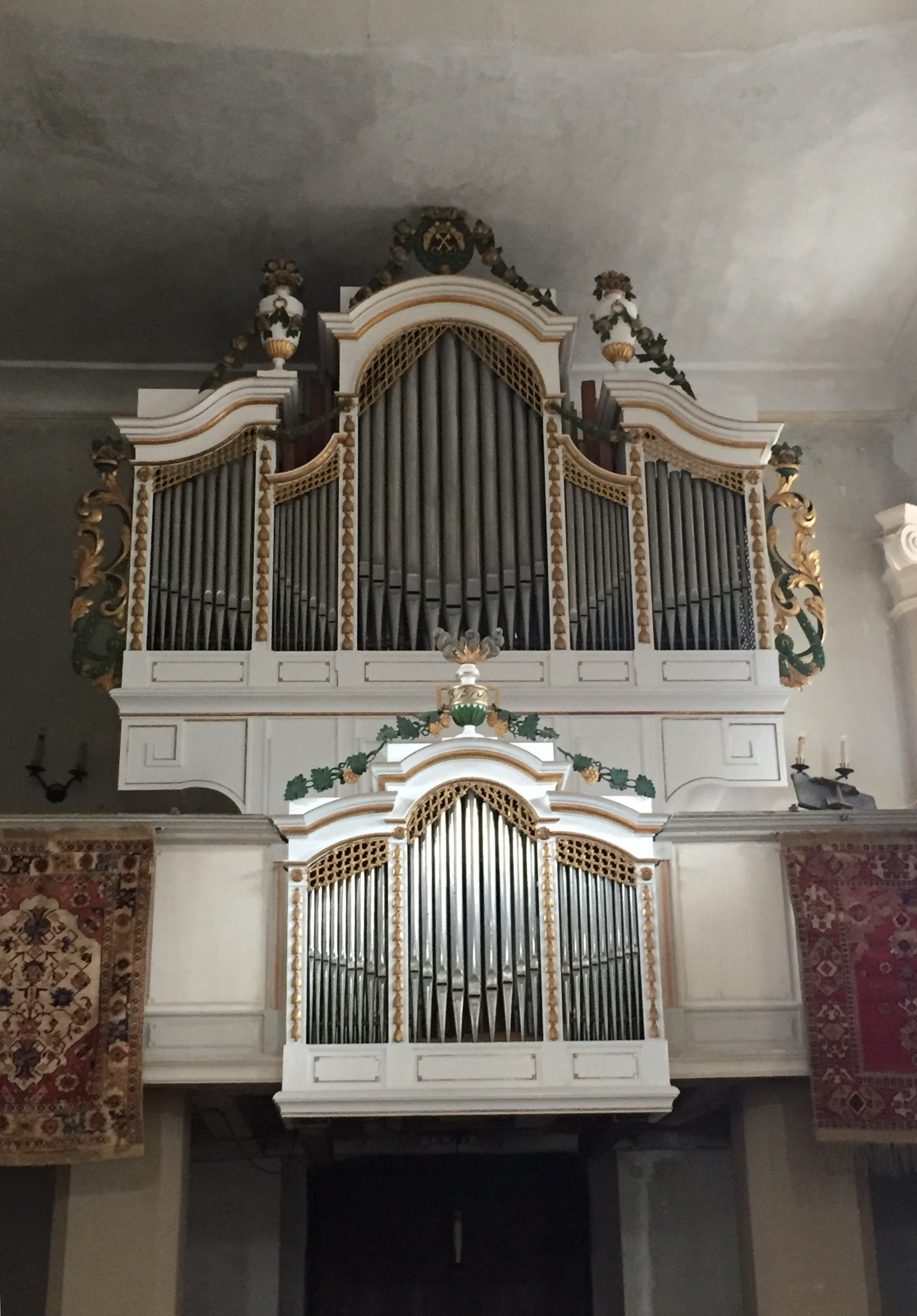 Organ of the Evangelical Church of Sânpetru, Transylvania, Romania. Built 1826 by Johann Thois, modified 1929 by Karl Einschenk, thoroughly restored 2015.